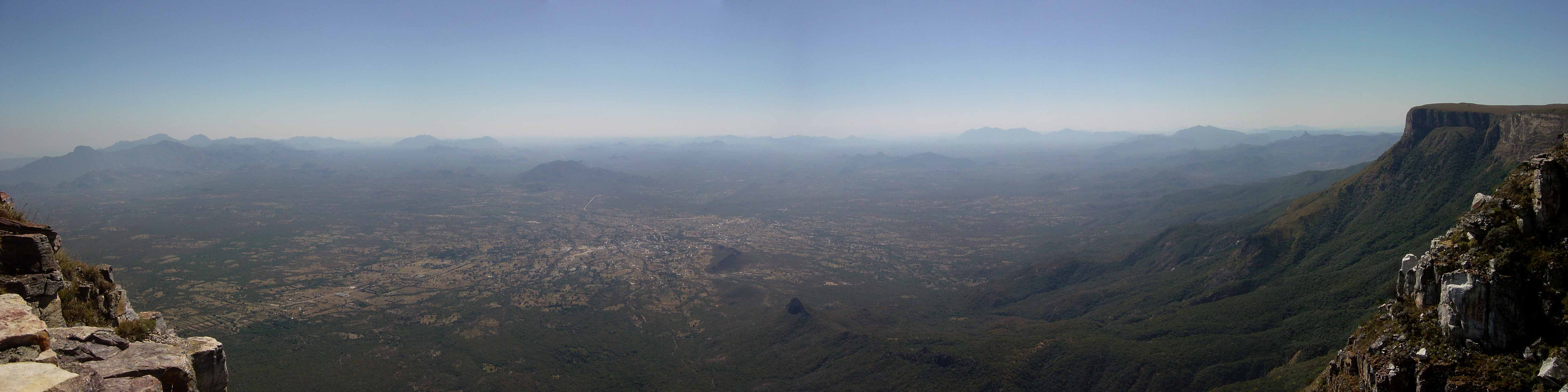 View from the Tundavala Gap